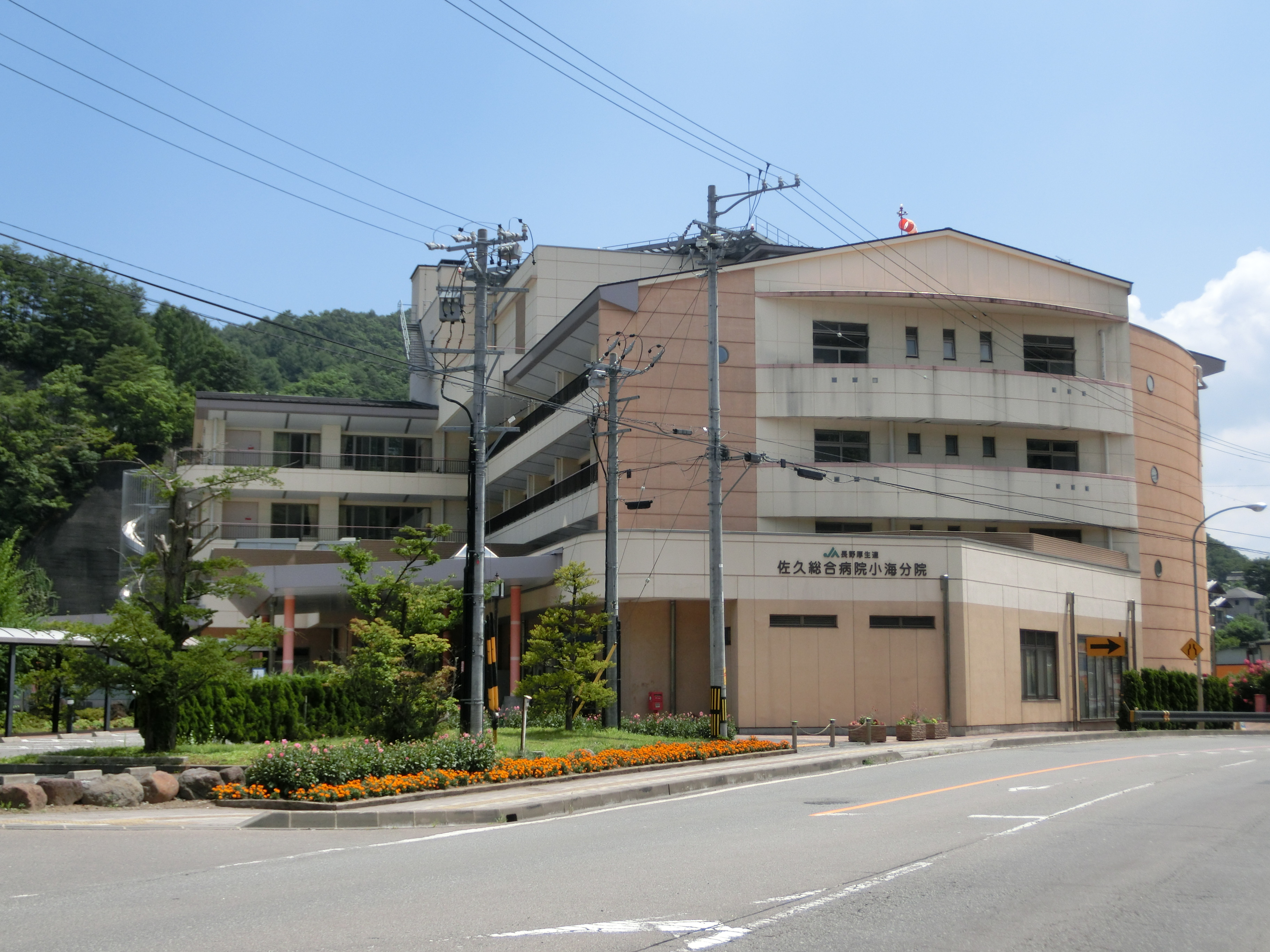 Saku Central Hospital Koumi Branch